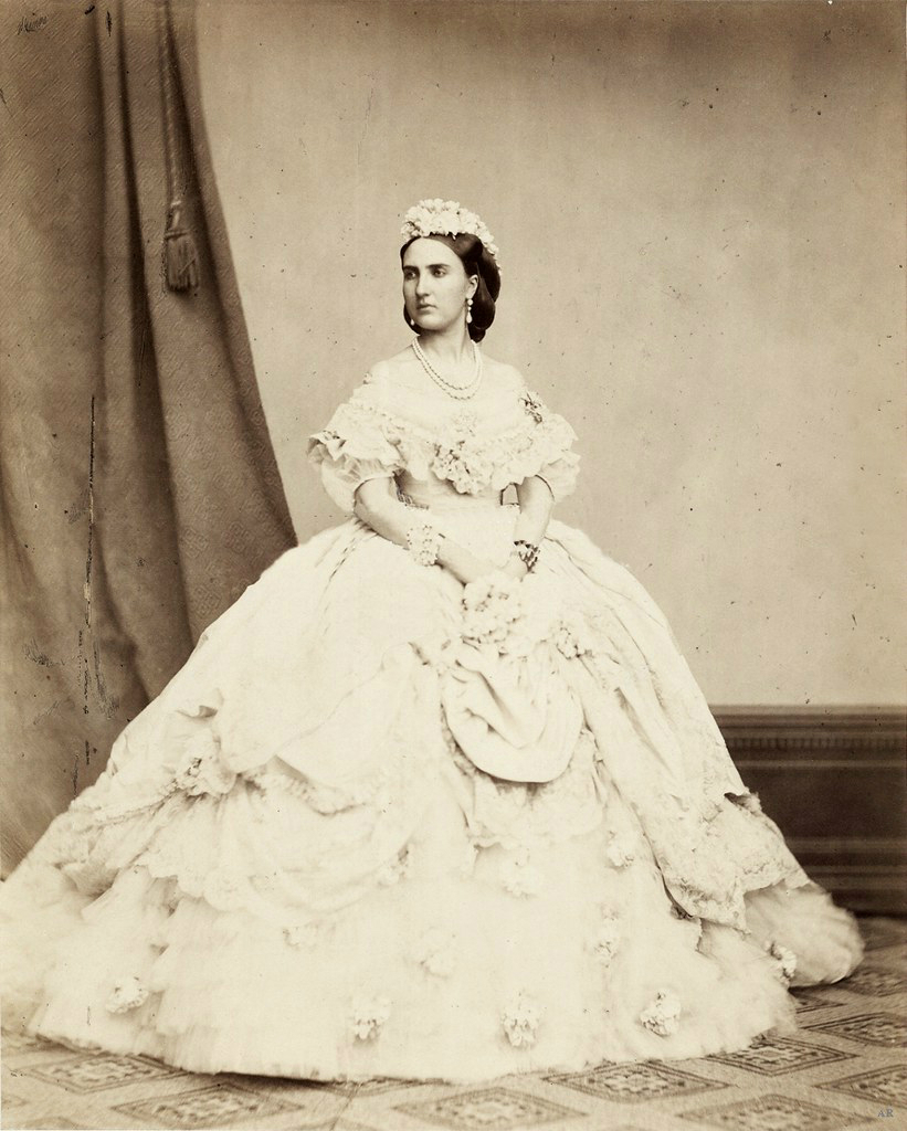 CHARLOTTE, CONSORT OF MAXIMILIAN, EMPEROR OF MEXICO. Photograph by J. Malovich.